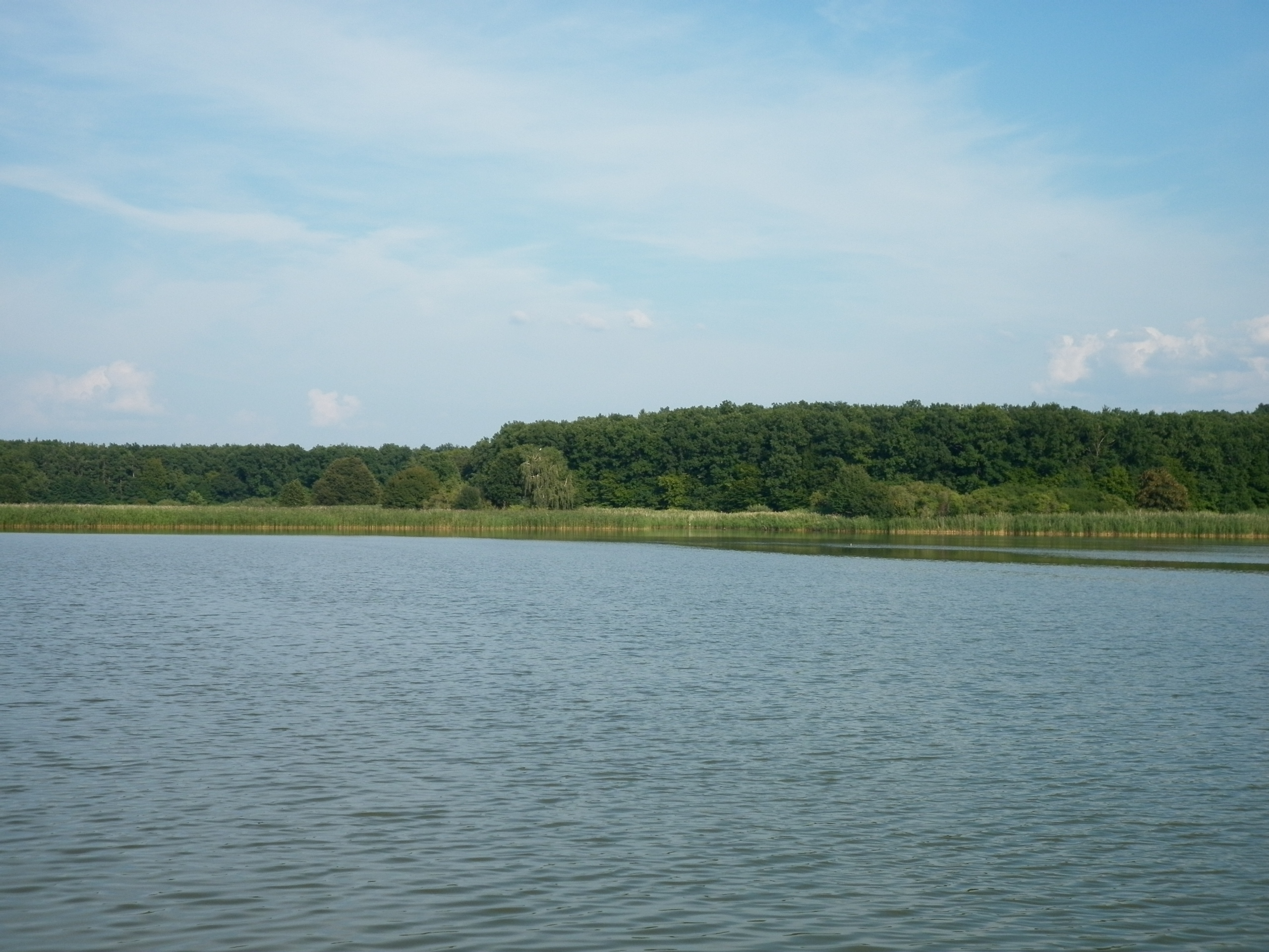 Natural reserve "Žernov", located in Pardubice District, Czech Republic. Valuable oak-hornbeam forest with surrounding ponds and wetlands. "Šmatlán" pond.